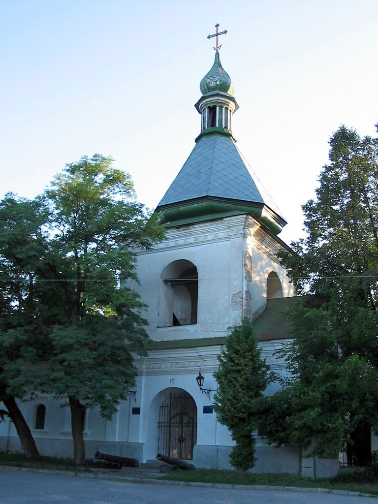 The Mykhailivska Church in Pereiaslav-Khmelnytskyi, Ukraine.